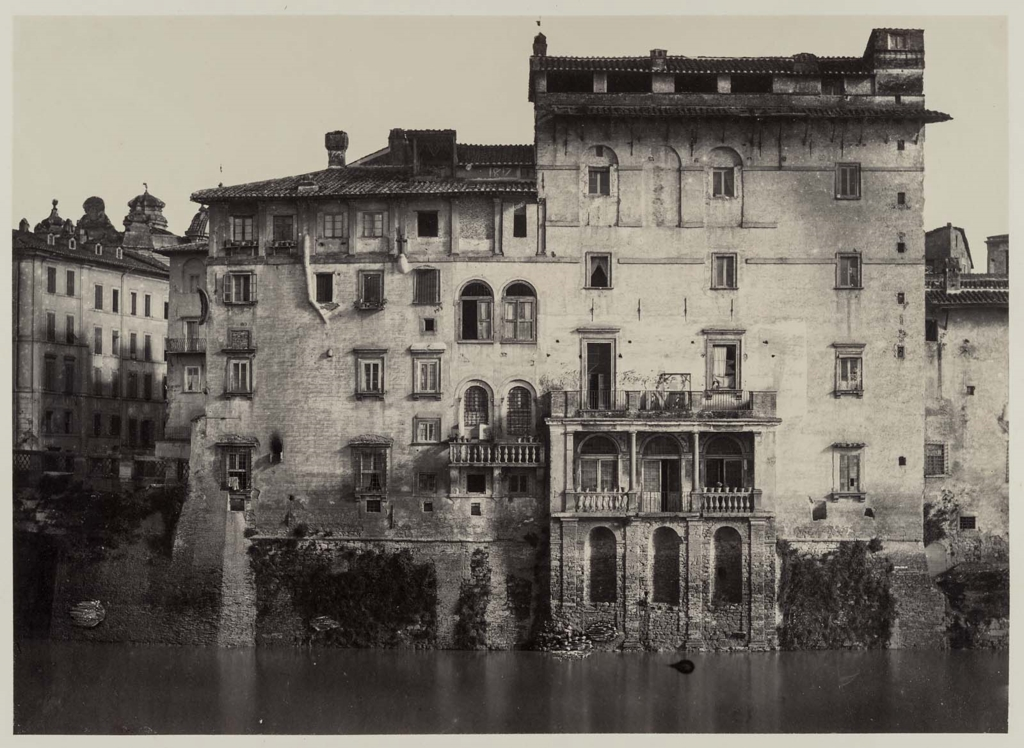 Palazzo Altoviti, on the Tiber (1851) by Robert MacPherson (1811-1872)